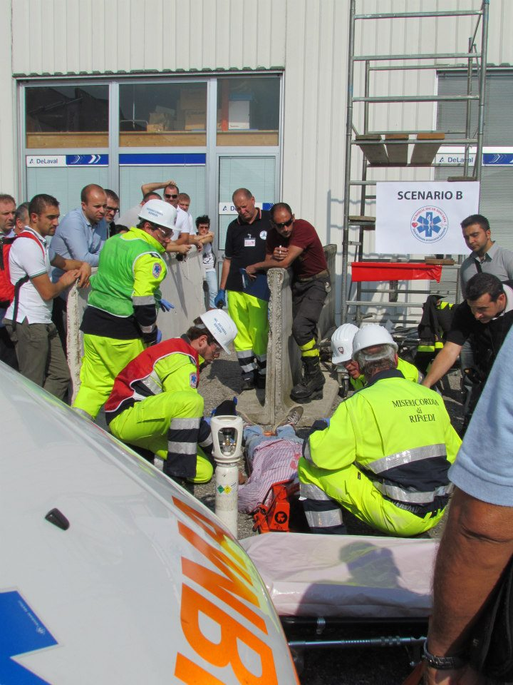 team reas